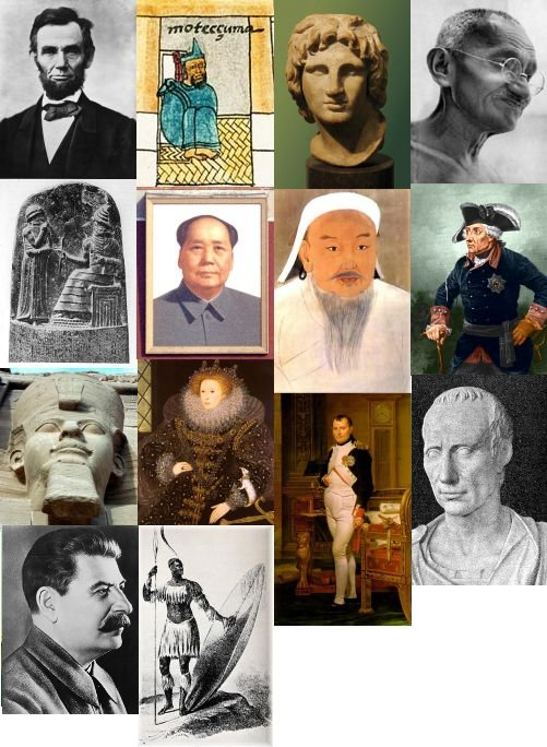 Historic pictures of the leaders in the Game Civilization by Sid Meier.